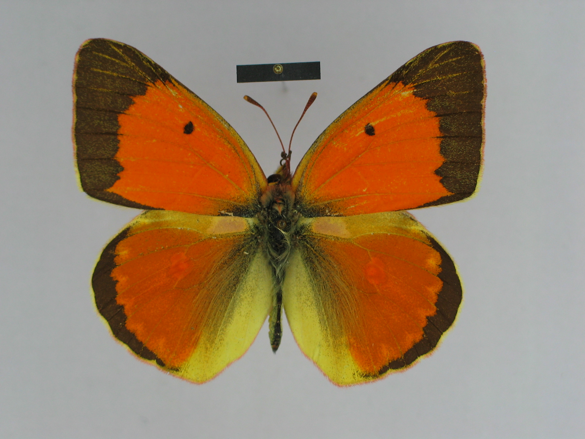 Specimen of the species Colias caucasica olga from the collection of the Zoological Museum of the Zoological Institute of the Russian Academy of Sciences; ♂ dorsal side; scalebar=1 cm